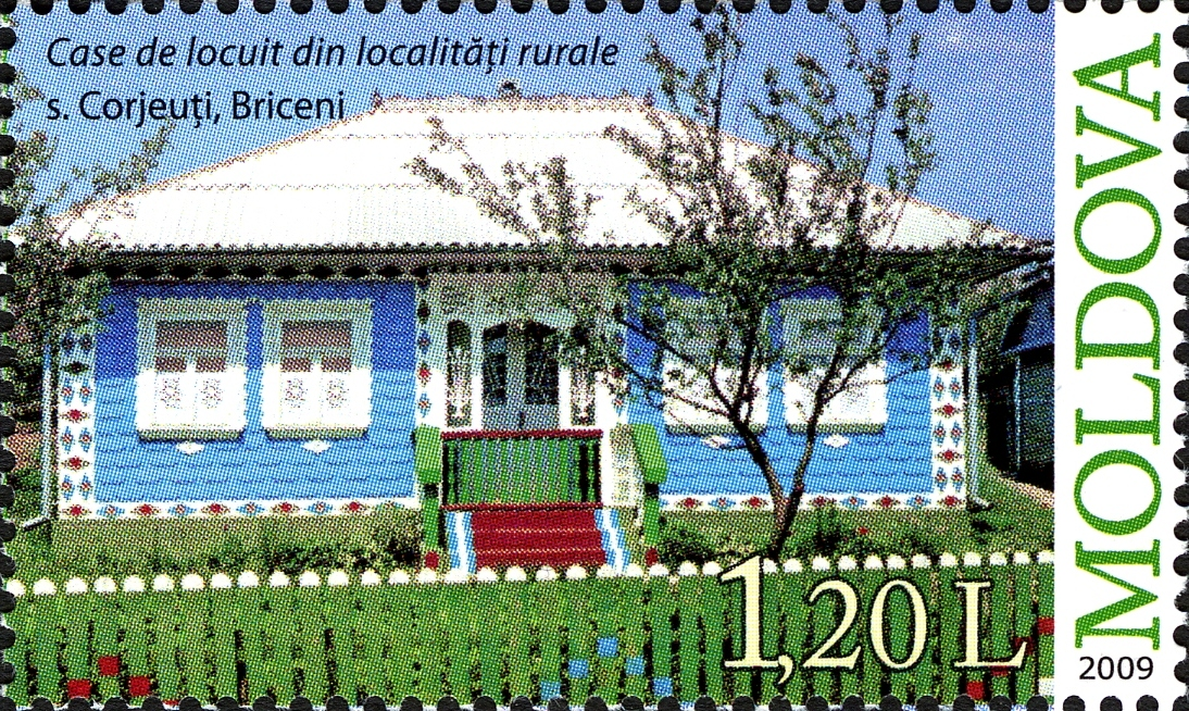 Stamps of Moldova